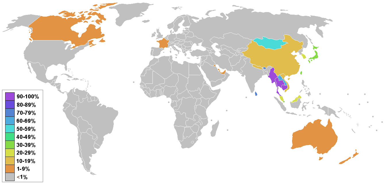 Percentage of Buddhists by country, data from Pew Research Center Global Religious Landscape 2010 and most recent census reports. Author: Vexorg Various modifiers.